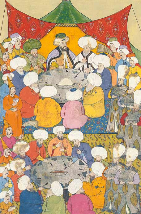 Feast with the Sultan and Islamic scholars (ulema). The participants use long spoons to eat from the centre of the table. Surname-ı Sultan Ahmed Han. Topkapı Sarayı Müzesi, Istanbul (Inv.3593/49b)